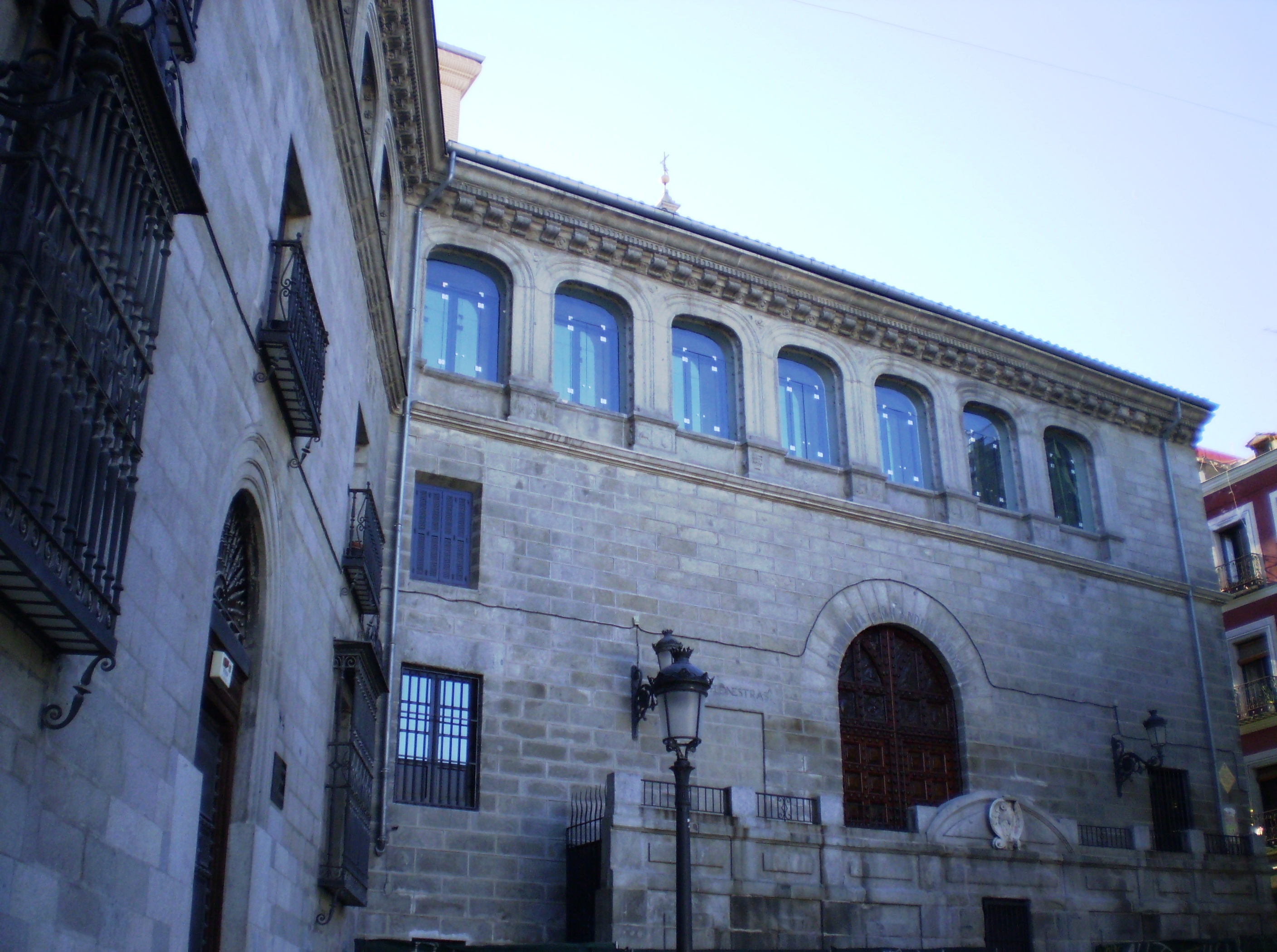 Capilla del Obispo Church. Madrid, Spain